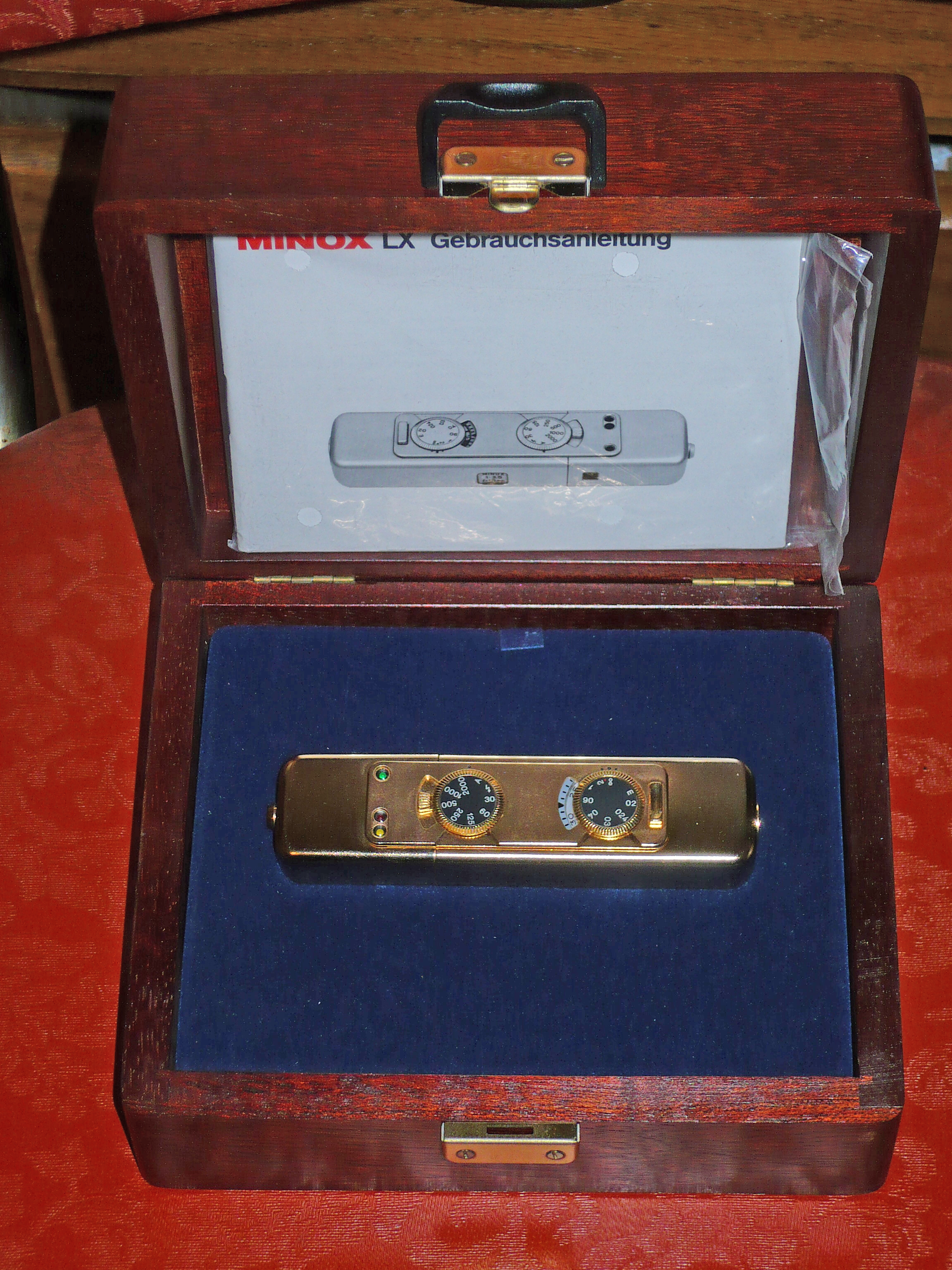 MINOX LX GOLD SELECTION WITH WOODEN BOX AND LEATHER CASE